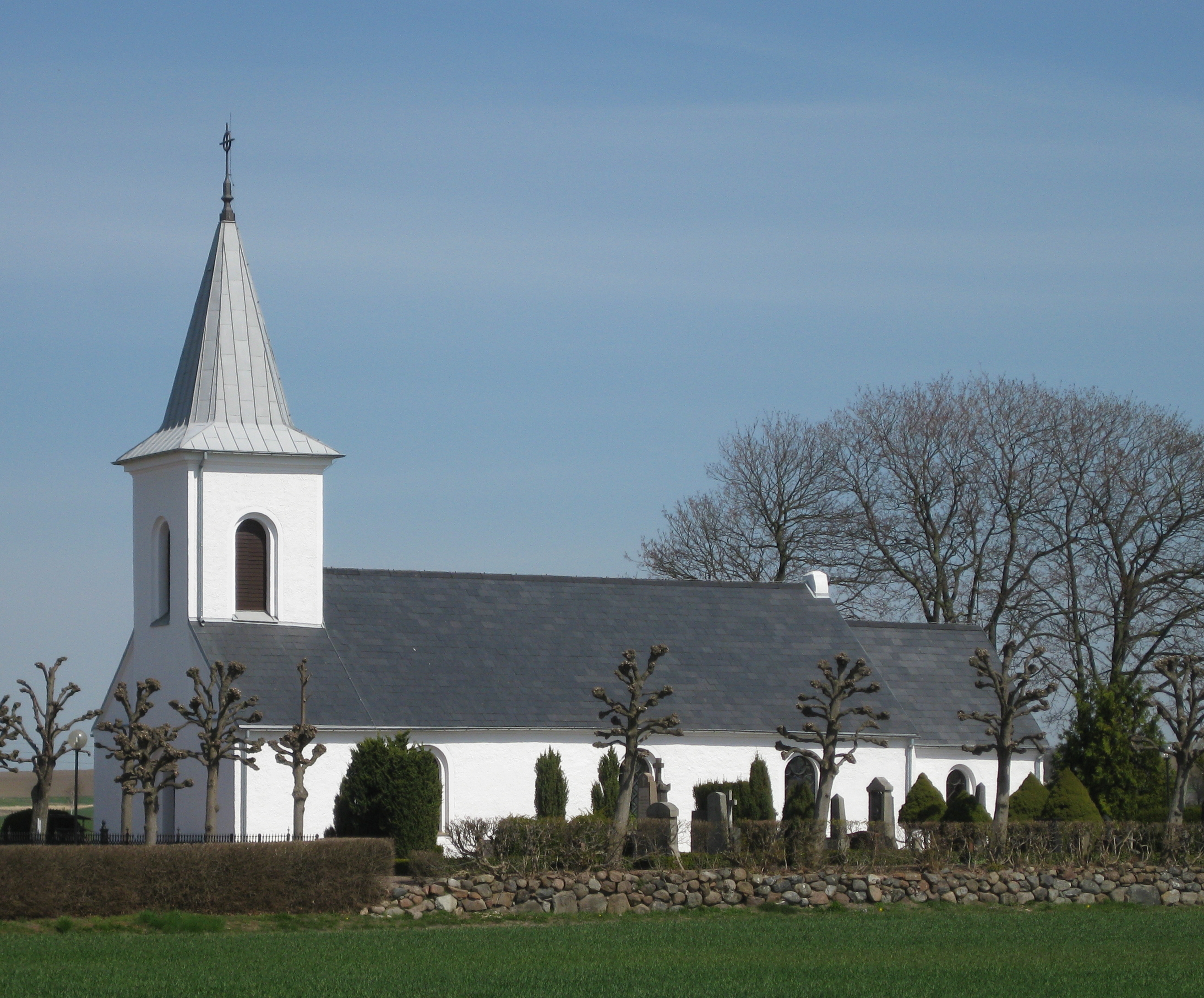 Säby church in Skåne, Sweden